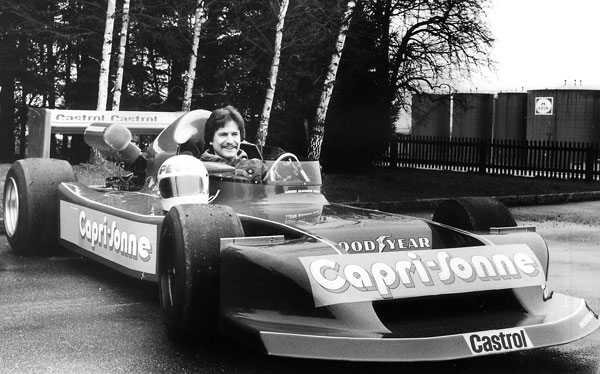 German driver Peter Scharmann in his 1978 Formula 2 racing car